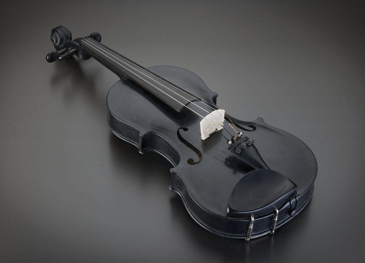 Black/w photo of The Blackbird, The Black Stone Violin. A full-size playable stone violin made by the swedish Sculptor Lars Widenfalk